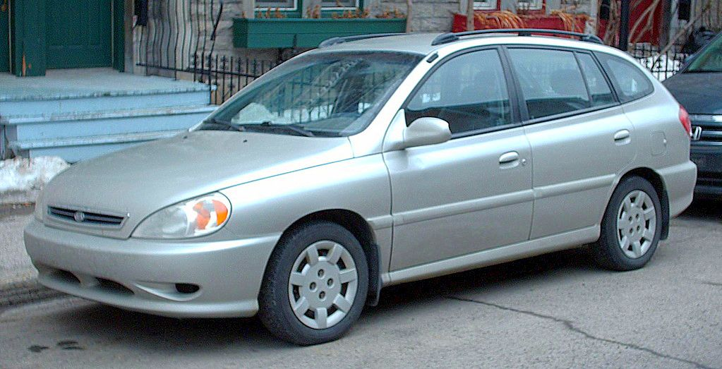 2001-2002 Kia Rio RX-V photographed in Montreal, Quebec, Canada.